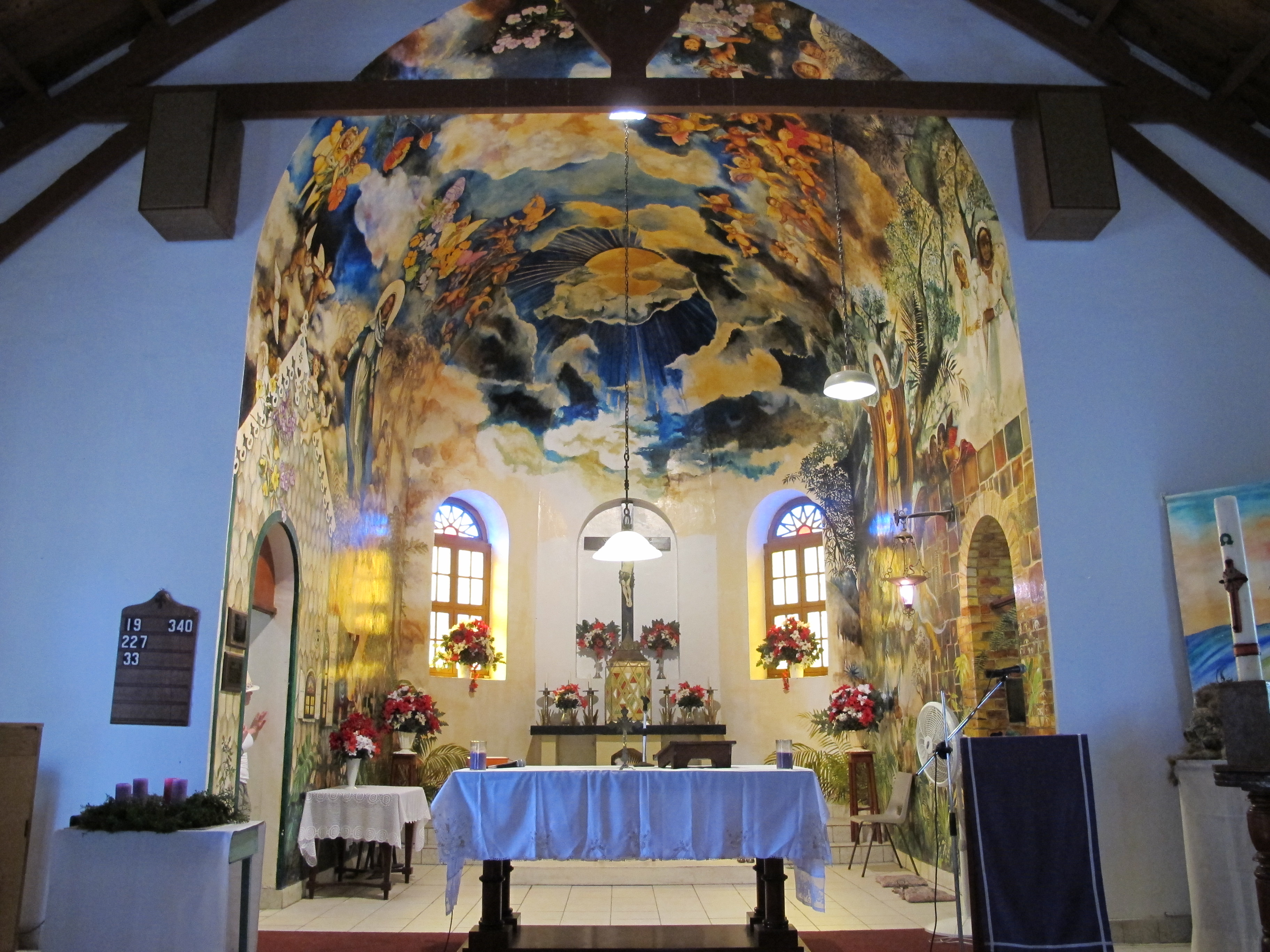 In The Bottom, capitol of Saba